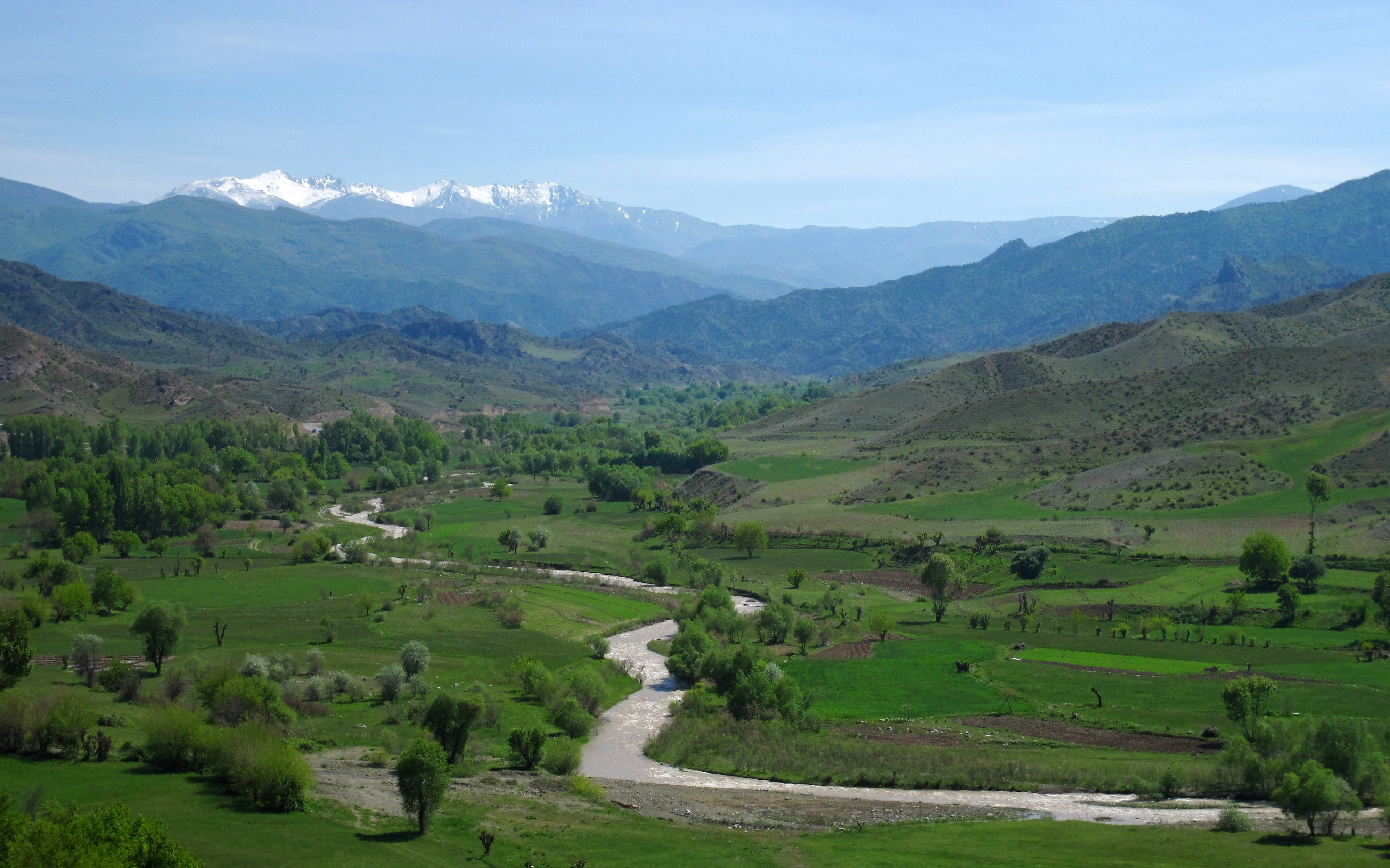 A photo intended for the wikipage, Eamarat, East Azerbaijan.